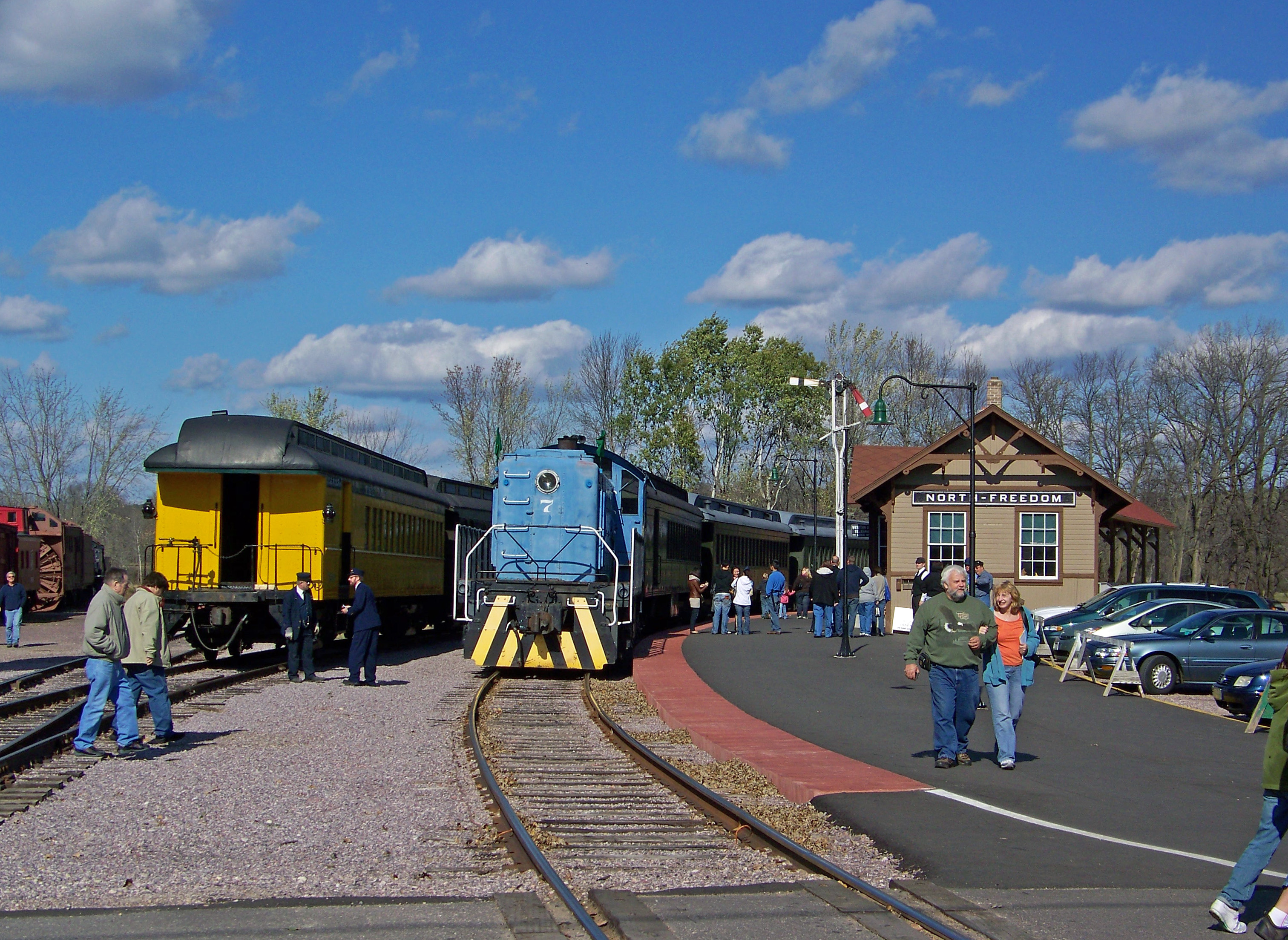 View of Mid-Continent Railway Museum's North Freedom depot and passenger platform as viewed from Museum Road. This photo was used on the 2012 Mid-Continent brochures and print advertisements.